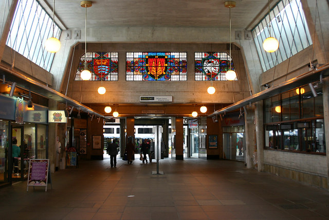 Uxbridge station This is the station concourse with shops and a ticket office. Represented in the stained glass windows are the arms of the County of Middlesex (left), the former Uxbridge Urban District Council (centre) and Buckinghamshire (right). The station, which replaced an older one in 1938, is a Listed Building.